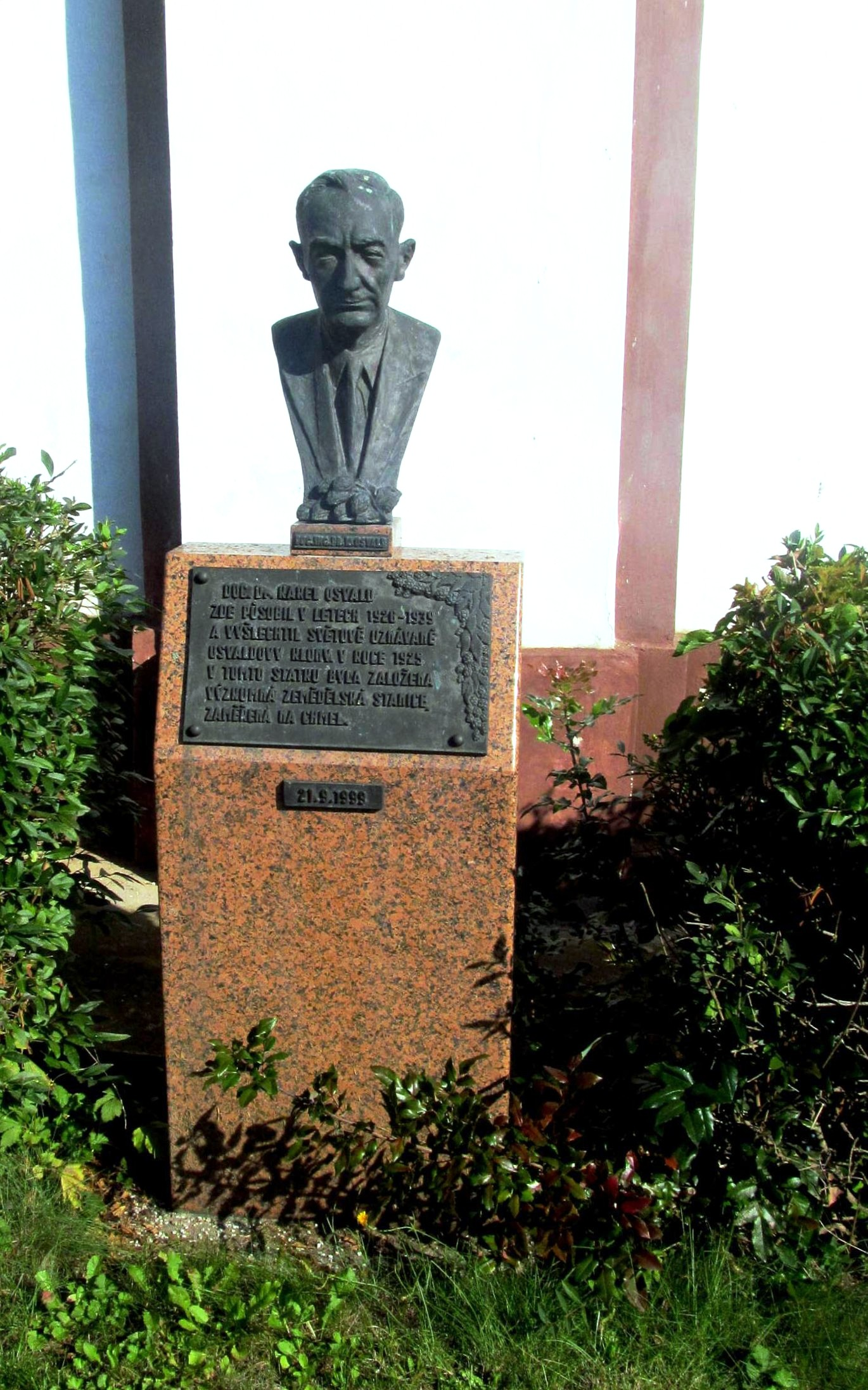 The bust of hop-growing expert Karel Osvald (1899–1948) in Deštnice in the grounds of No 1 in Deštnice